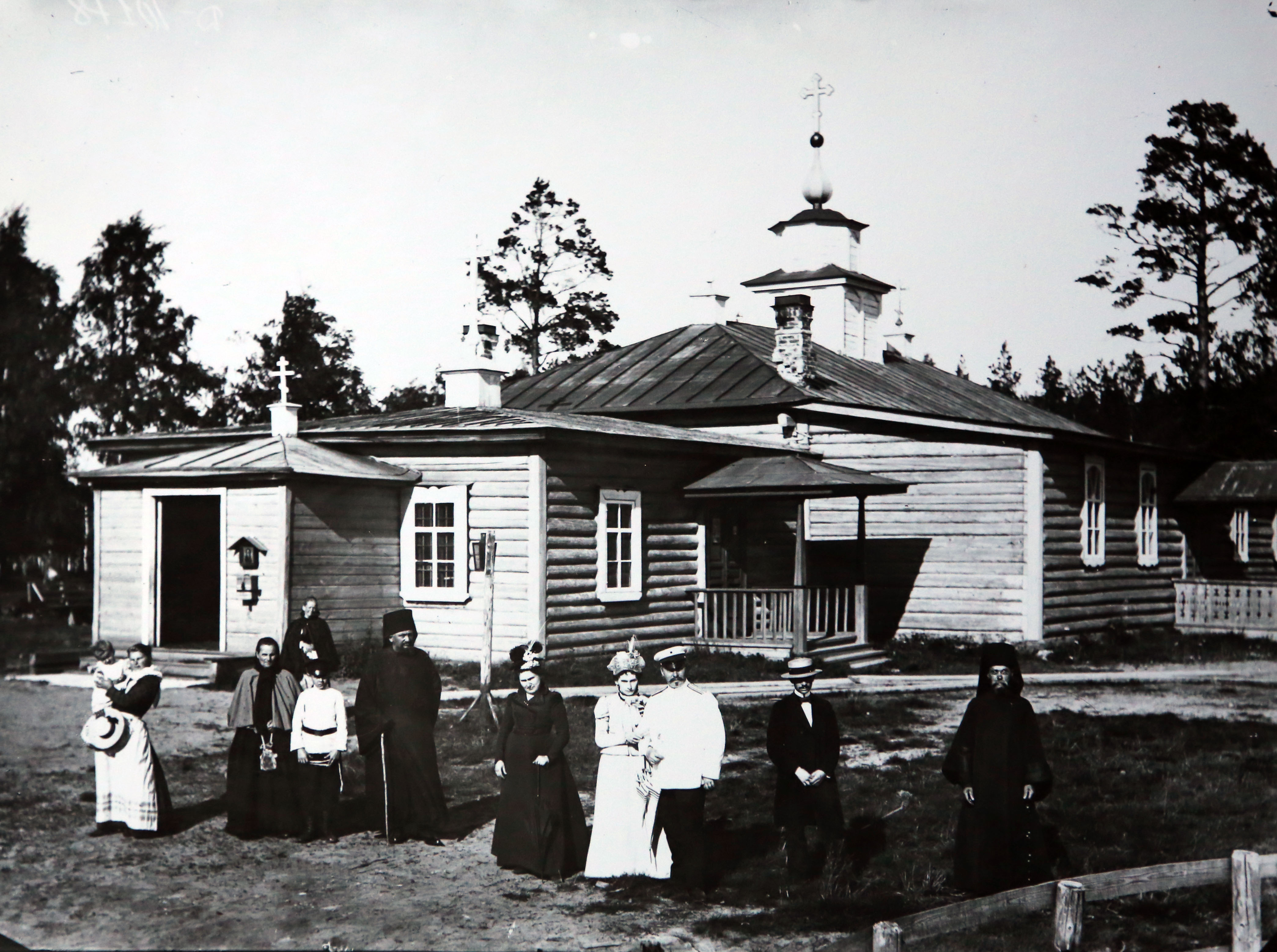 Main church of the St.Macarius of Rome monastery in Novgorod eparchy